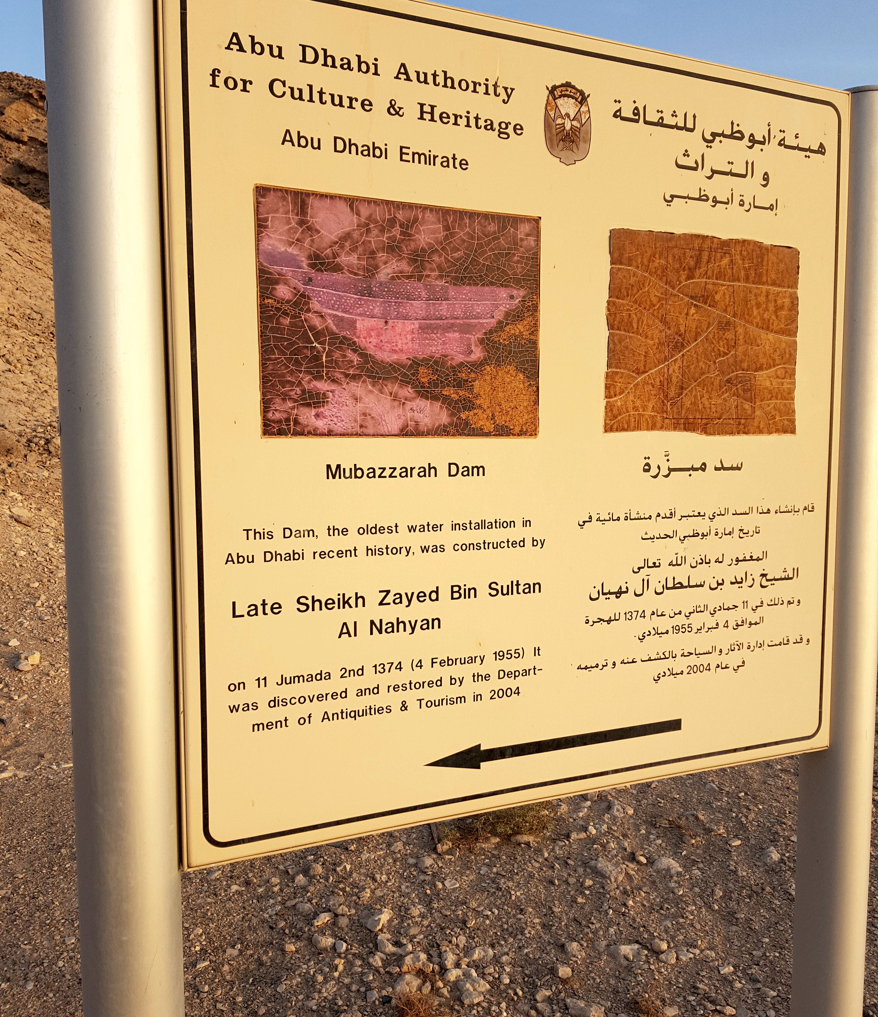 The sign at Mubazzarah Dam rather charmingly proclaims it as the 'oldest water installation in Abu Dhabi recent history'.